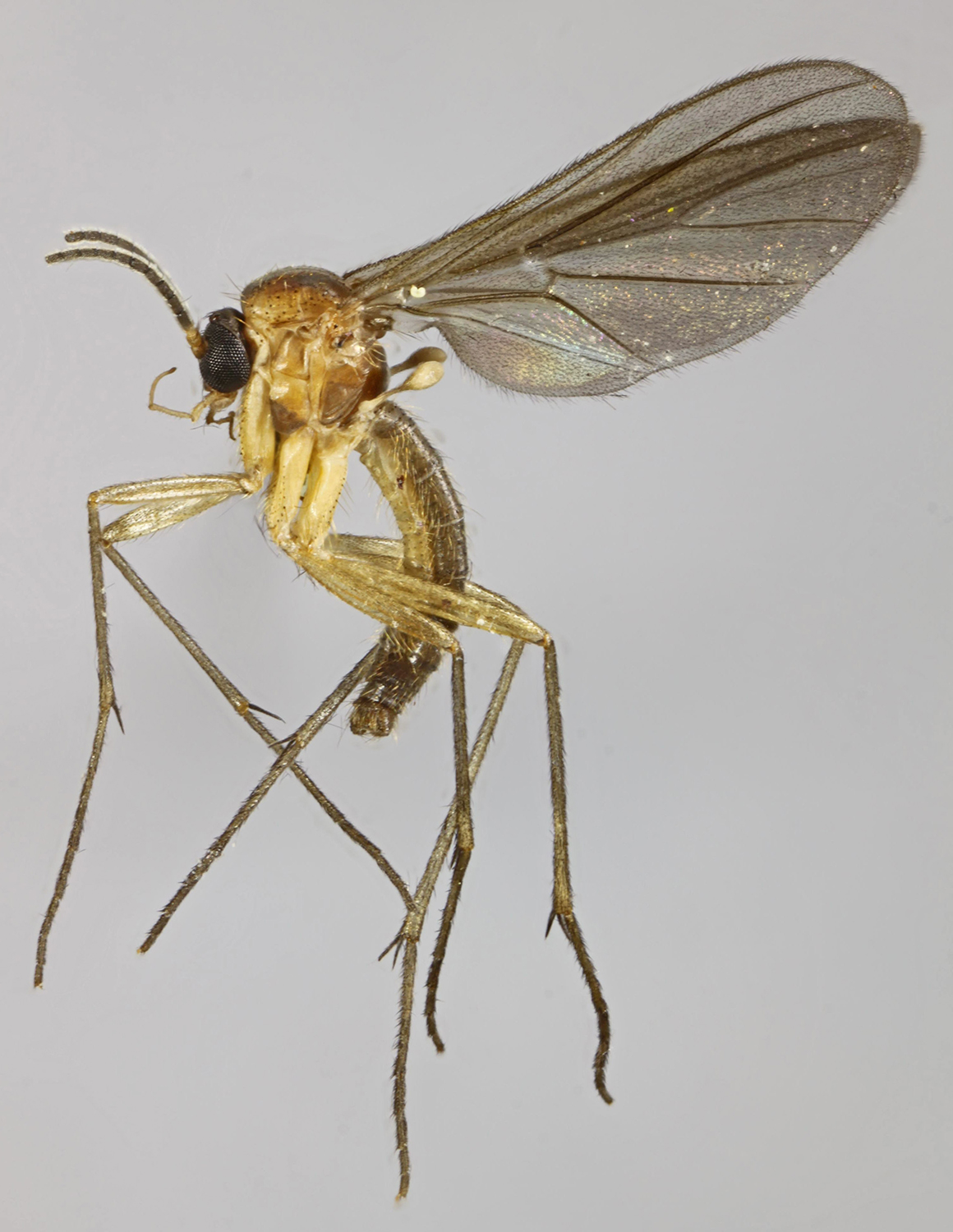 Diadocidia ferruginosa, Trawscoed, North Wales, June 2014